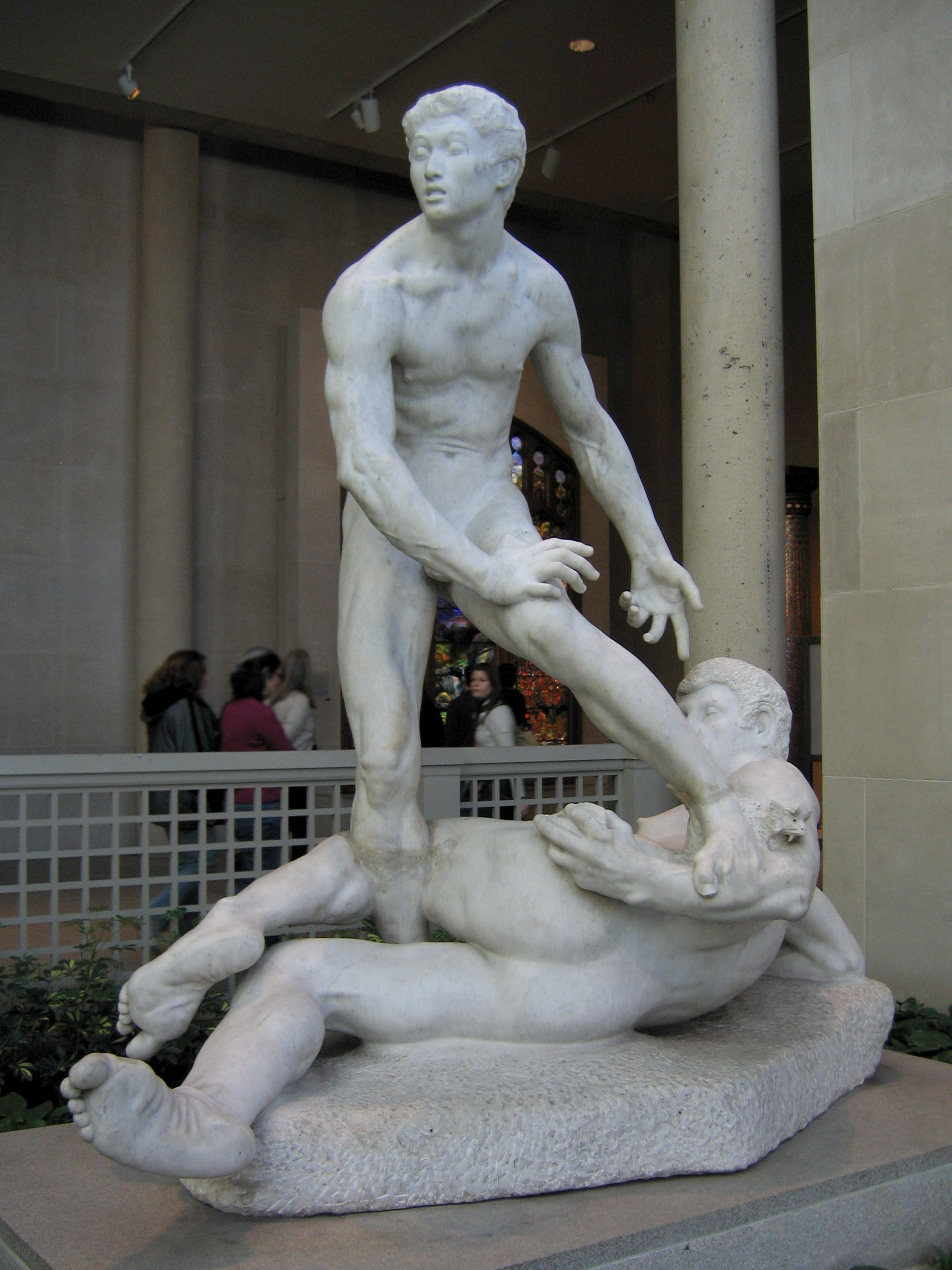 Struggle of the Two Natures in Man, 1888; this carving, 1892-94. George Grey Barnard (1863 - 1938). Marble, Metropolitan Museum of Art, New York City.